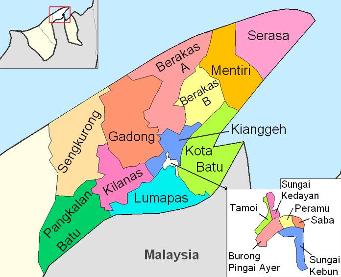 Map of the mukims of Brunei and Muara district in Brunei. Created by Rarelibra 21:51, 11 September 2006 (UTC) for public domain use, using MapInfo Professional v8.5 and various mapping resources.